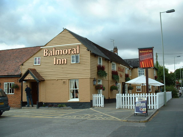 Balmoral Inn, Southampton. The Balmoral Inn, a popular Beefeater pub/restaurant along Romsey Road, near Nursling.